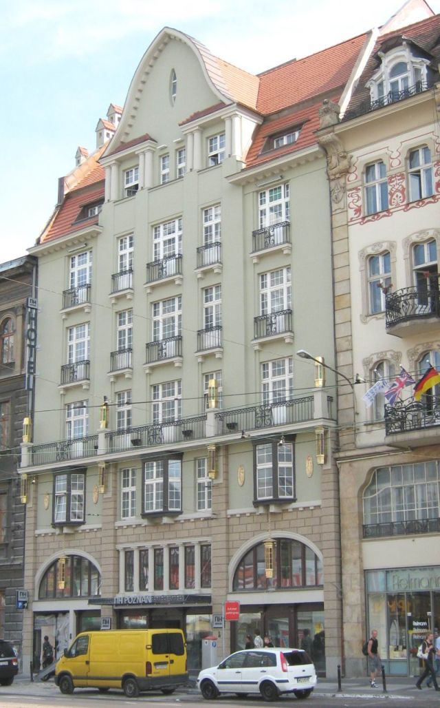 Hotel NH